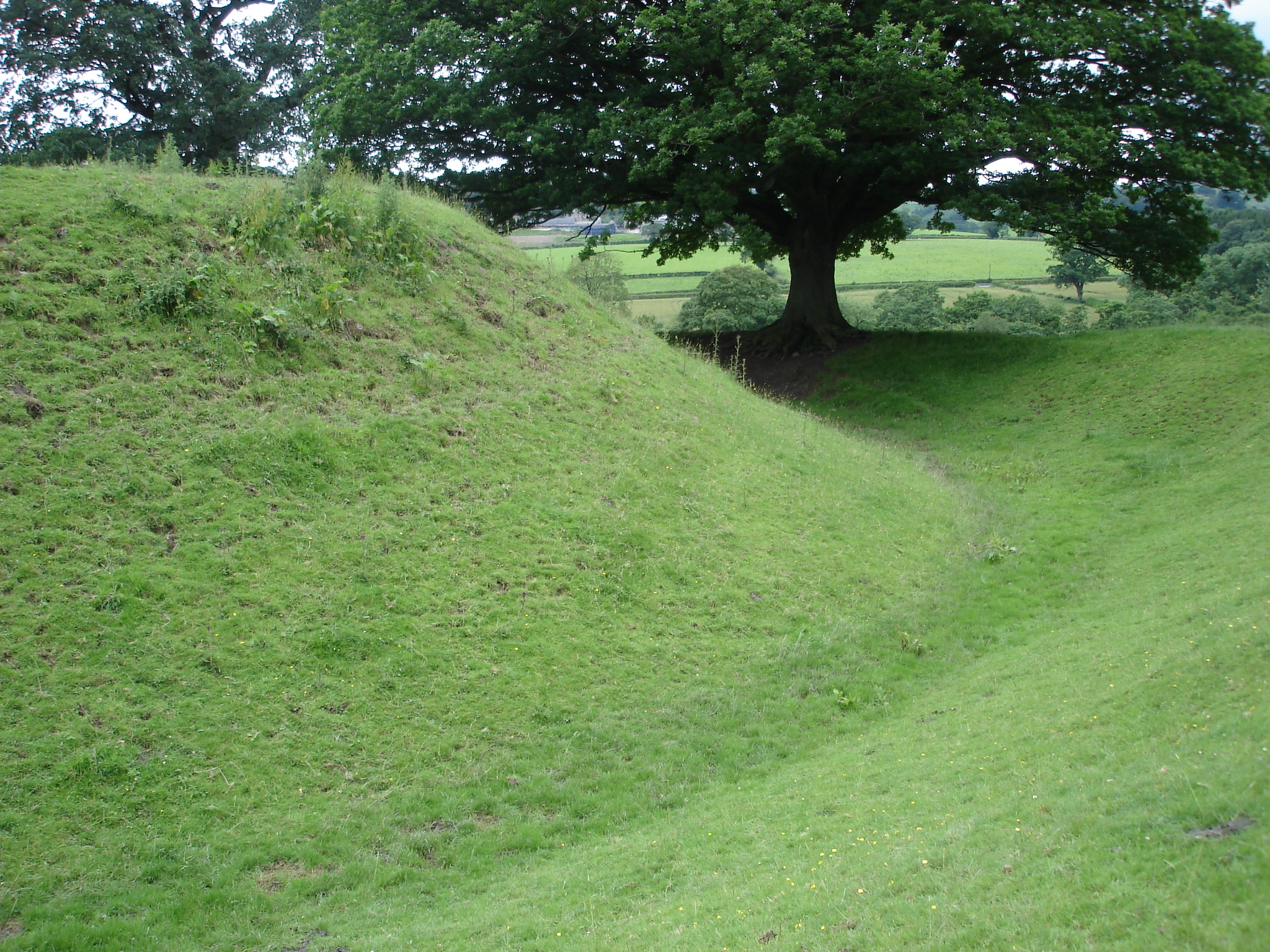 Sycharth, showing motte and moat